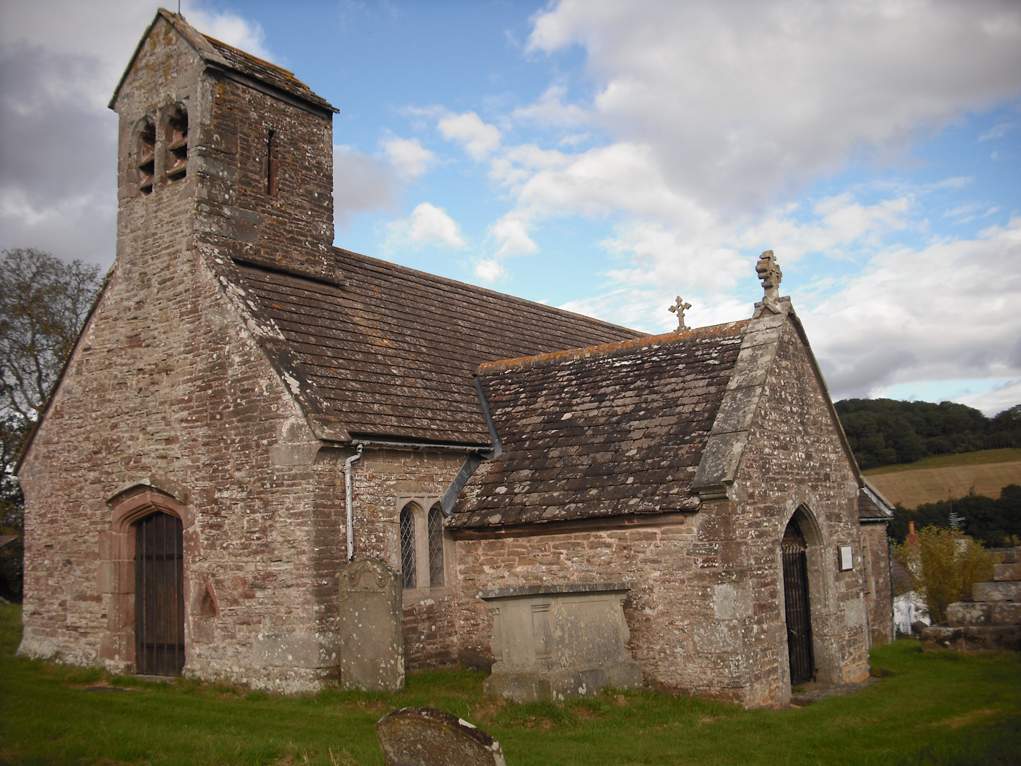 St. Govan's Church, Llangovan, from the south west